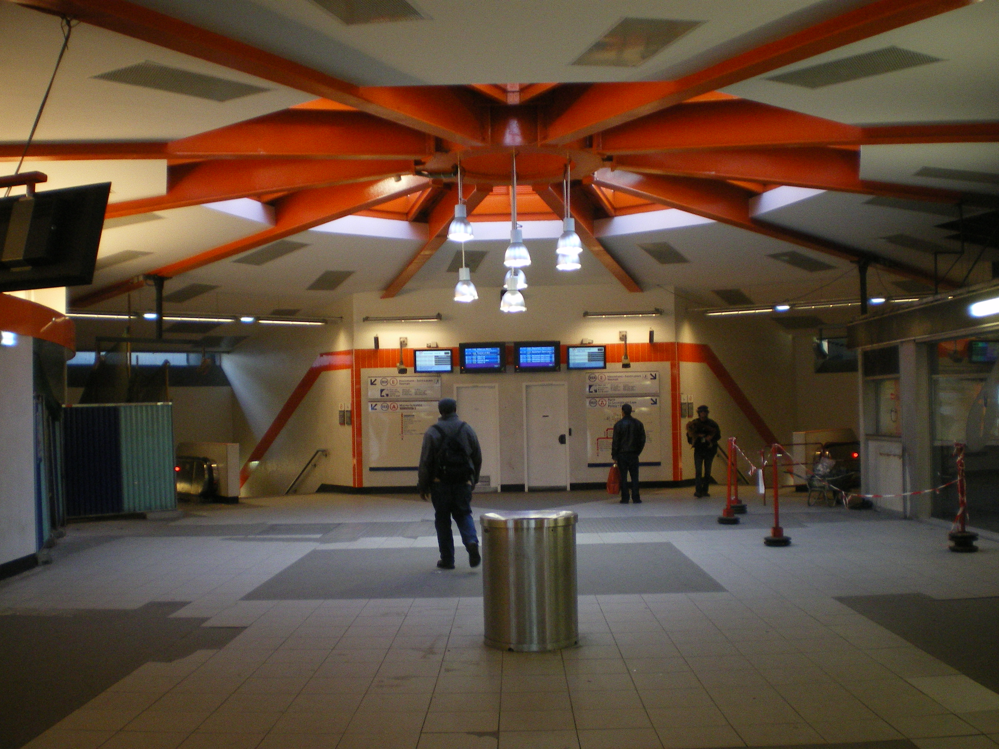 Hall of the station